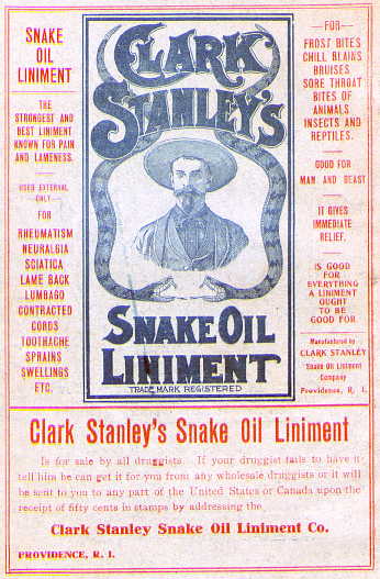 The color cover for Clark Stanley's Snake Oil Liniment. It features a description of the product's uses, and mr. Stanley wearing a hat with two snakes surrounding him.